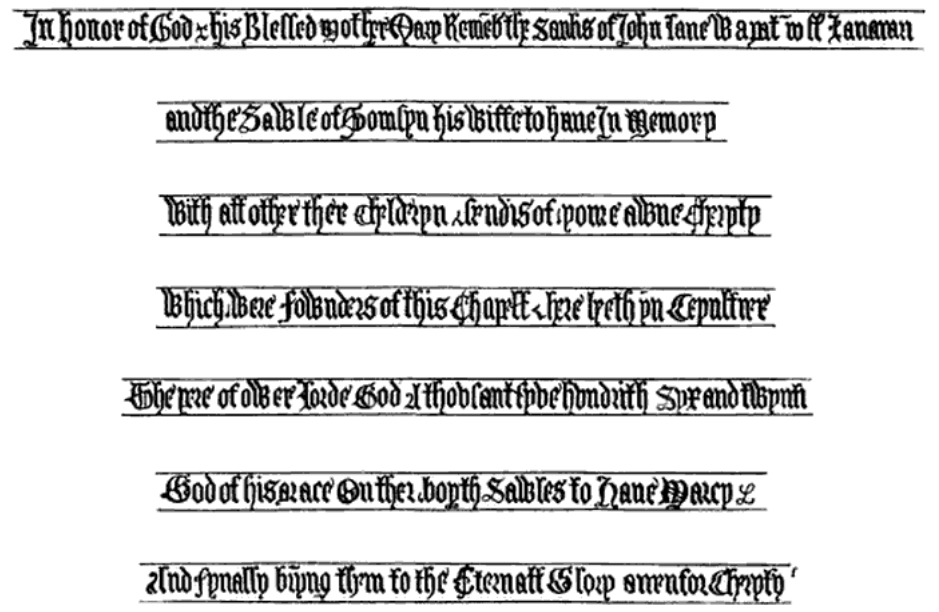 Inscriptions on exterior of the Lane Chapel, south aisle of St Andrew's Church, Cullompton, Devon. The inscription is sculpted low-down on the outside wall of the aisle, running round all three sides of the building, with each word cut on detached stones. Facsimilie drawing 1847 published in: Delagarde, Philip Chilwell, An Account of the Church of St Andrew, Cullompton, published in Transactions of the Exeter Diocesan Architectural Society, Volume 3, Exeter, 1846-9, p.57[1]. Transcription with modern spelling: "In honor of God and his blessed Mother Mary, remember the soule of John Lane with a Pater Noster and Ave Mary and the soule of Thomasine his wife, to have in memory all other their children and friends of your own charity which were founders of this chapple, and here lie in sepulture, the year of our Lord one thousand five hundred and six and twenty. God of his grace on both their soules to have mercy, and finally bring them to eternal glory. Amen for charity." Due to a misreading of the inscription on the exterior of his Chapel he was said by Polwhele (1793) to have occupied the office of Wapentake Custos,[1] Lanarius,[2][3] (translated as "Constable of the Hundred, wool merchant"). However no historical evidence supports the existence of such an office and the inscription was later correctly re-interpreted by Smirke (1847) as "with a Pater Noster and Ave Mary".[4]